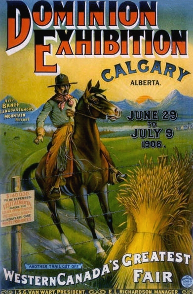 A poster promoting the 1908 Dominion Exhibition in Calgary, Alberta, Canada.